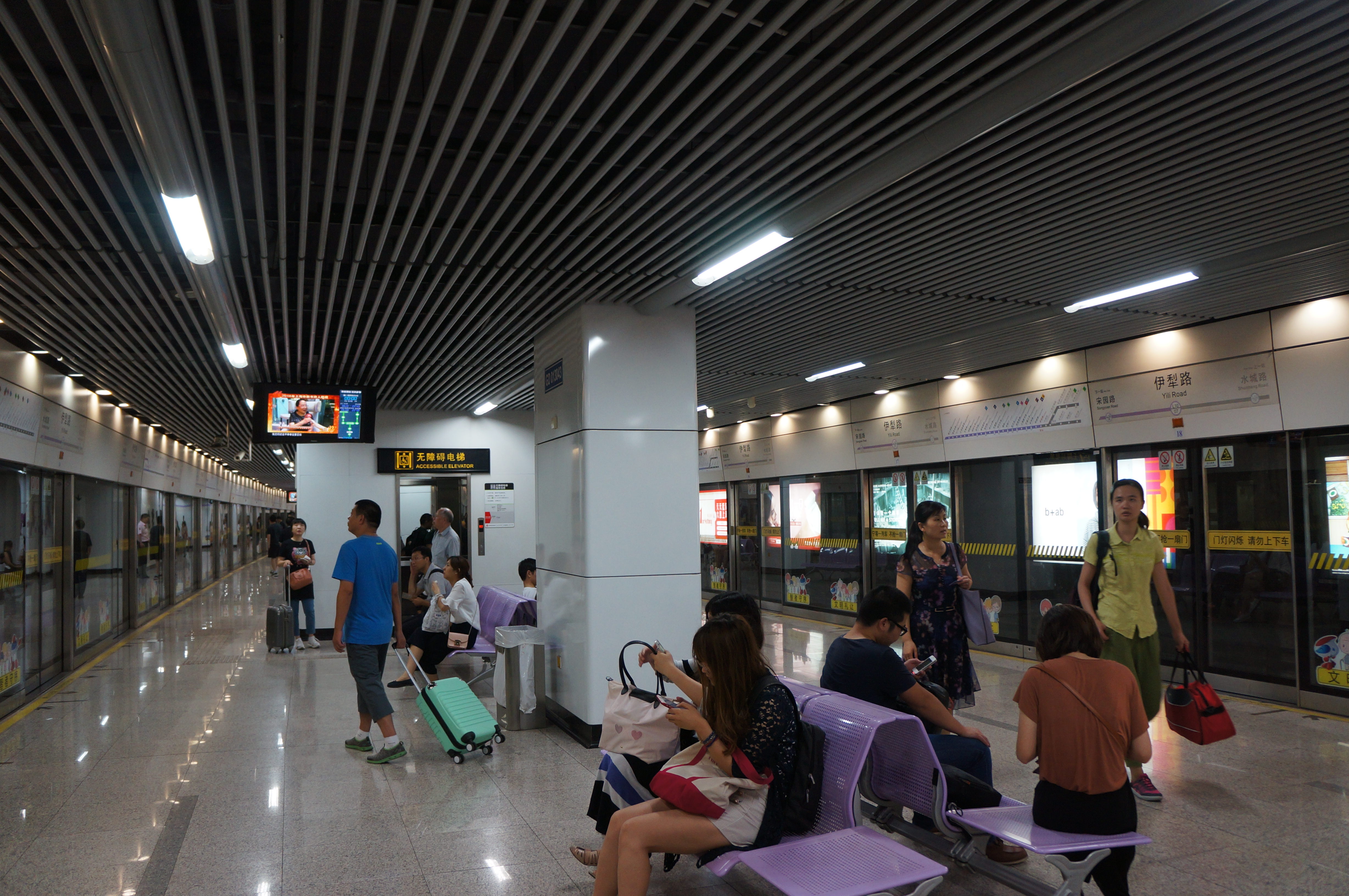 201609 Platform of Yili Road Station